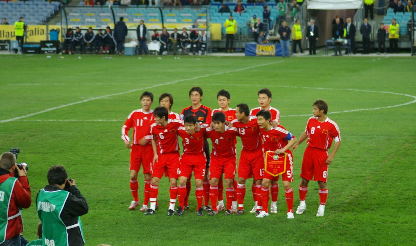 Chinese National Football Team pose for group photo just prior to the commencement of the Asian Zone World Cup Qualifying Match at ANZ Stadium Sydney. China won 1-0.